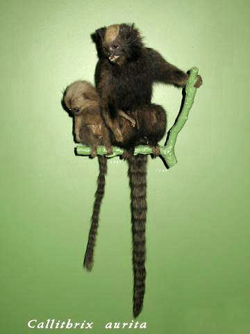 Description: Buffy-tufted Marmoset - Source: own work - Location: American Museum of Natural History, New York - Author: self, User:Stavenn